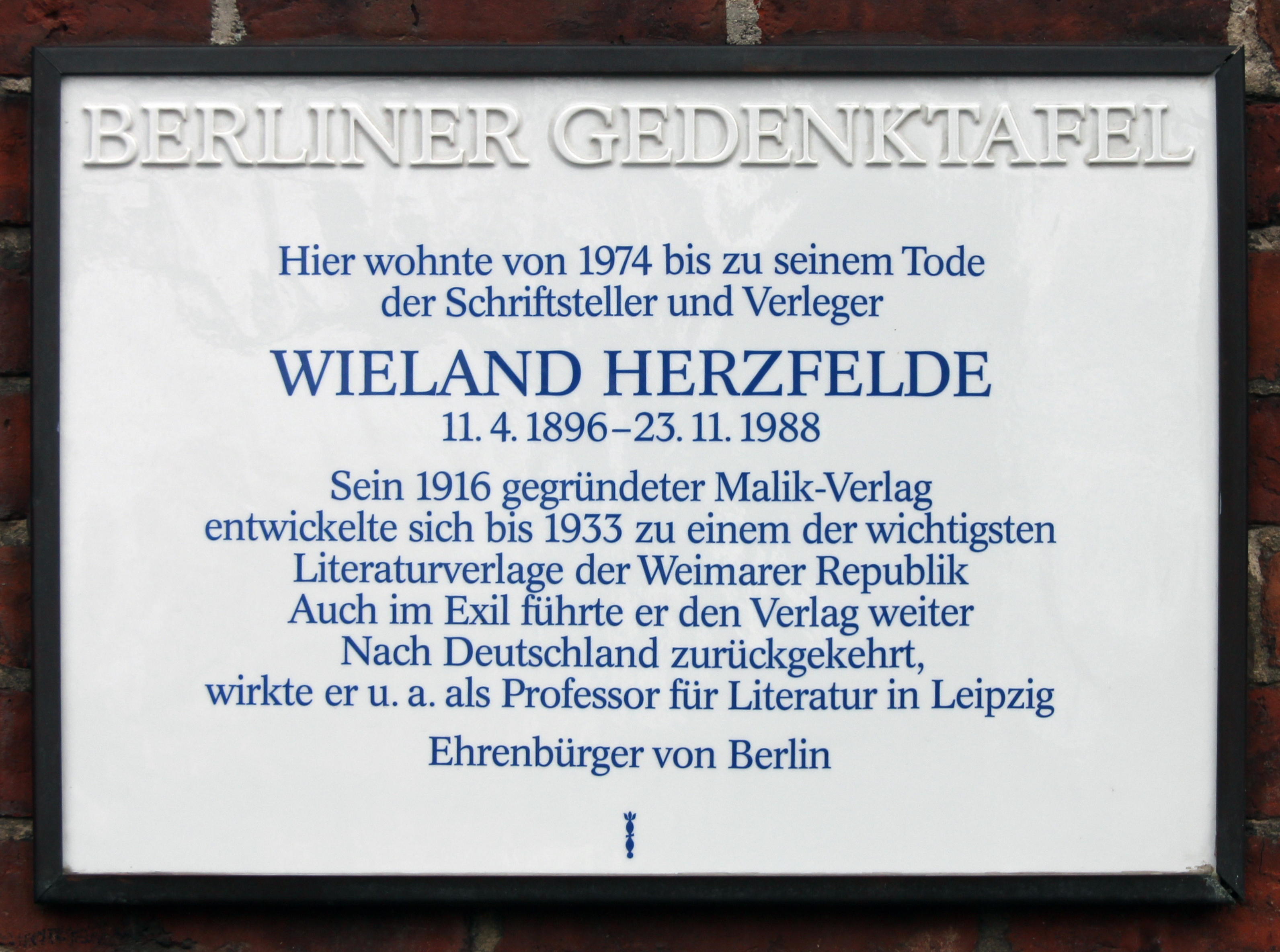 Berlin memorial plaque, Wieland Herzfelde, Woelckpromenade 5, Berlin-Weißensee, Germany